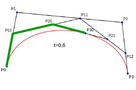 Podela Bezijerove krive na dva dela